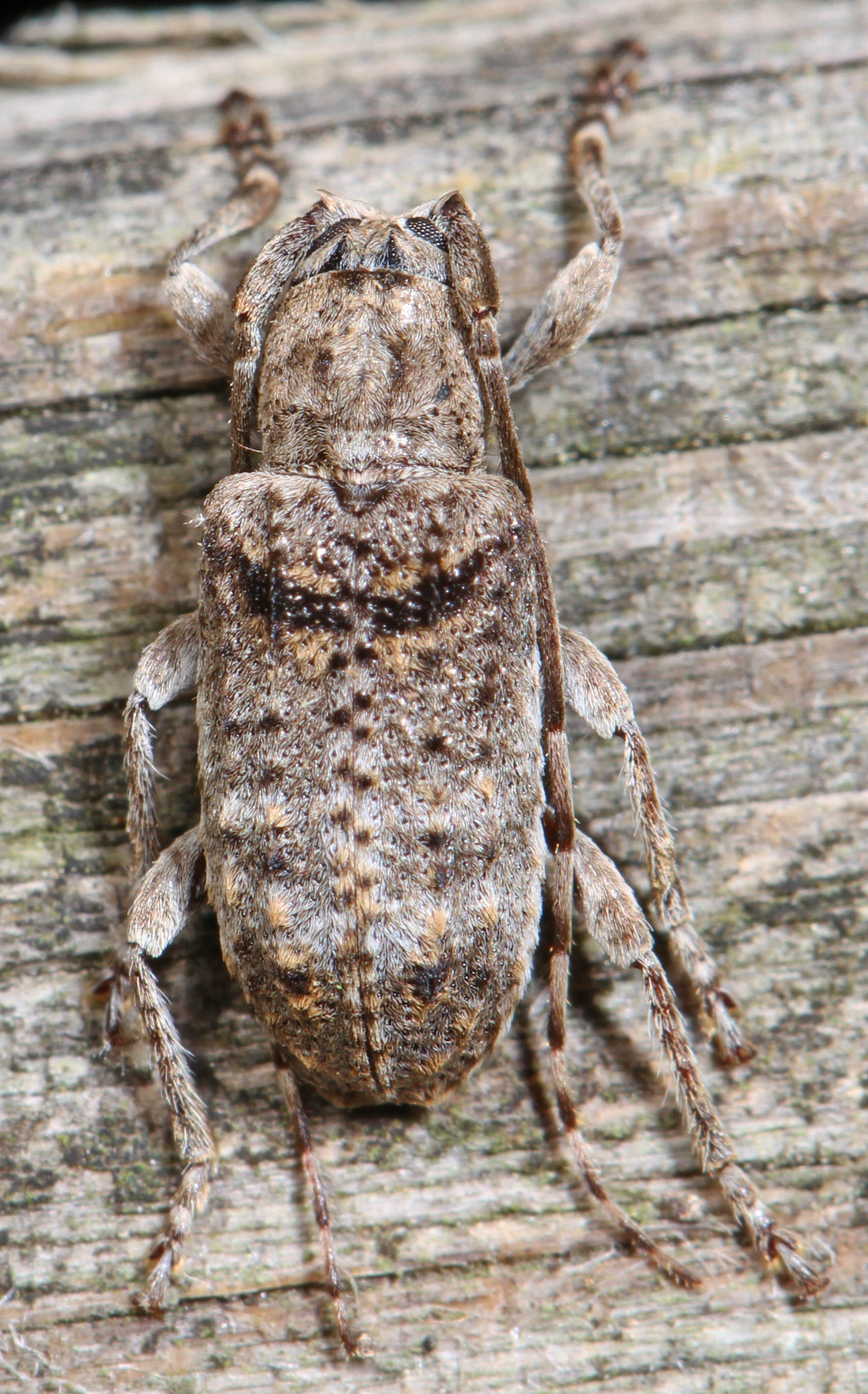 Long-horn Beetle - Ecyrus dasycerus, Leesylvania State Park, Woodbridge, Virginia. yet another example of great camouflage